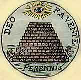 William Barton of Philadelphia's 1782 proposal for U.S. national seal with motto Deo Favente Perennis "Enduring by the Favor of God".